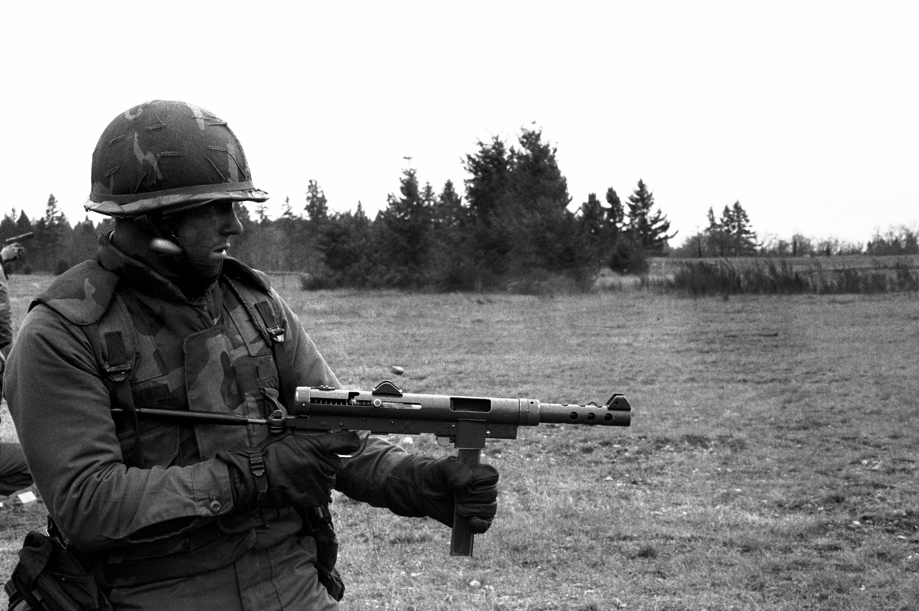 Pfc. Dean Richardson, a candidate in the Ranger Indoctrination Program (RIP), 2nd Battalion, 75th Infantry (Ranger), fires the Swedish-K 9mm SMG during special weapons training at Range 31, Fort Lewis, Washington (WA), United States.